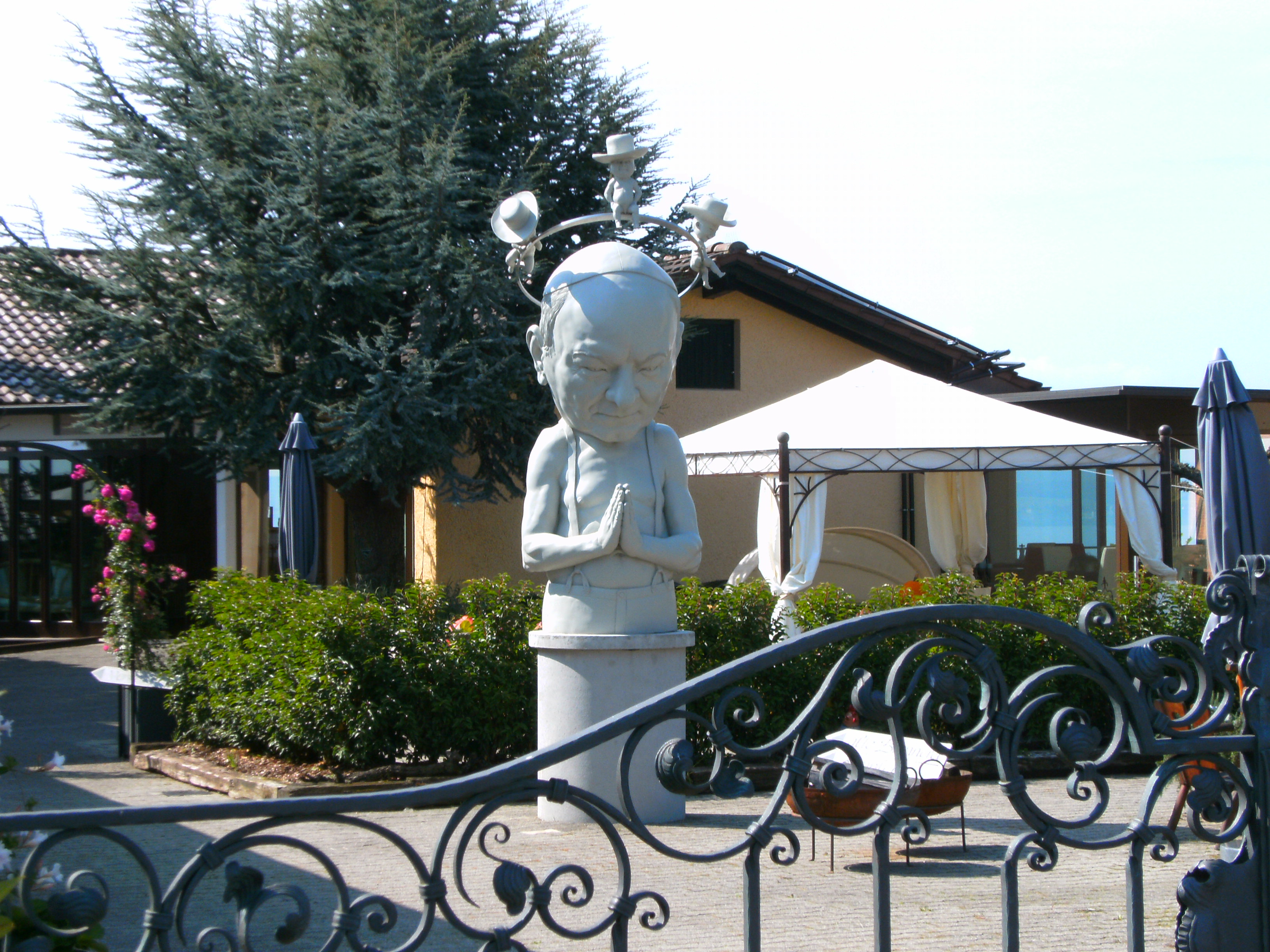 Sculpture Heinrich Hansjakob of 2014 by Peter Lenk on private ground of Burgunderhof in Hagnau am Bodensee, Germany, Frenkenbacher Straße/Am Sonnenbühl. The statue is visible fully from public street Am Sonnenbühl.